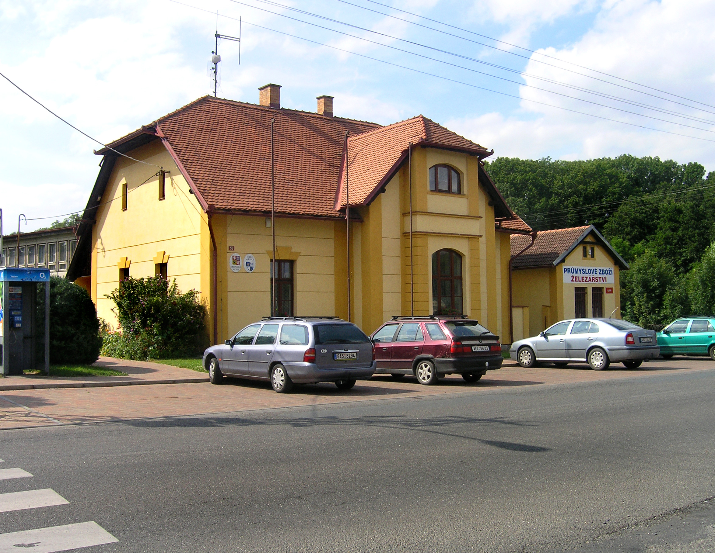 Municipally Office of Měšice, Czech Republic